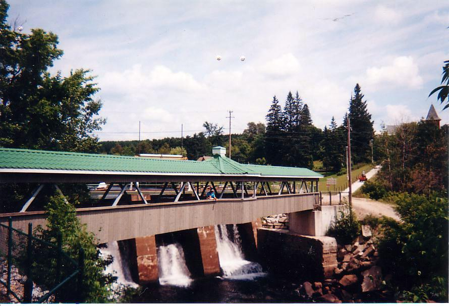 Heritage Bridge in Burk's Falls.